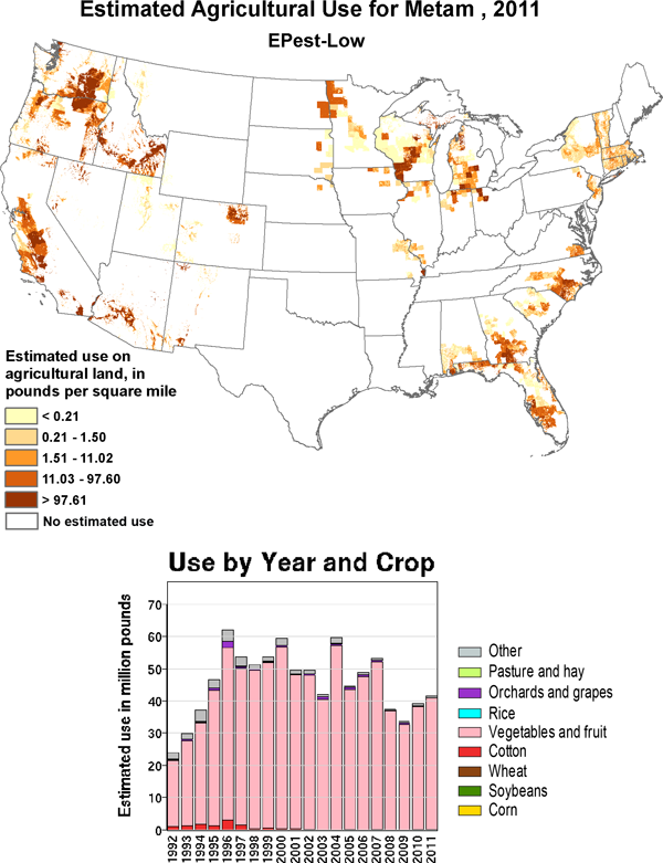 Metham sodium map of use, USA, 2011 (estimated)